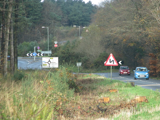 Approach to the roundabout at Ashcombe Cross